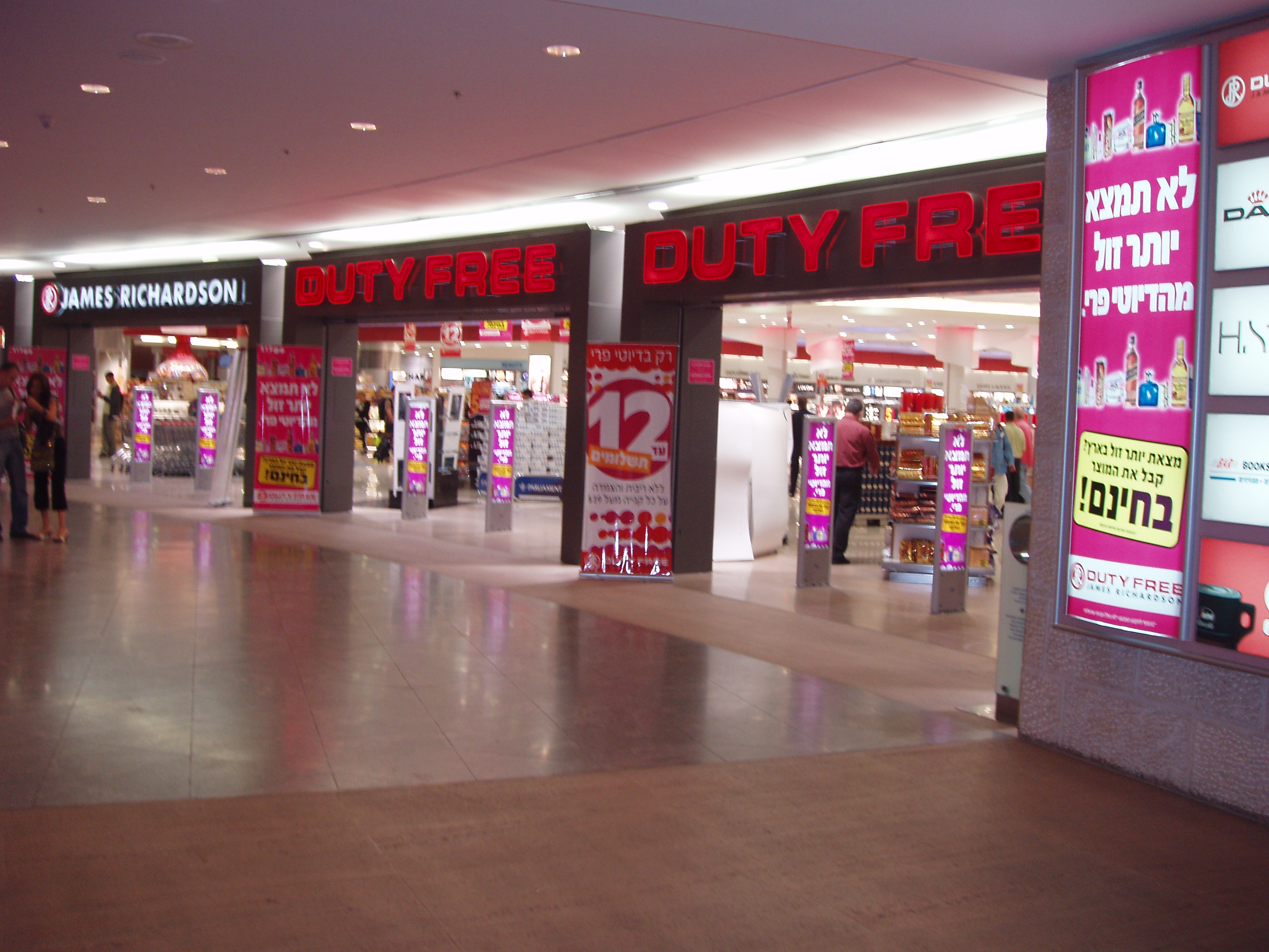 Duty Free shop - Ben Gurion Airport. Picture taken by David Shay, May 2006.